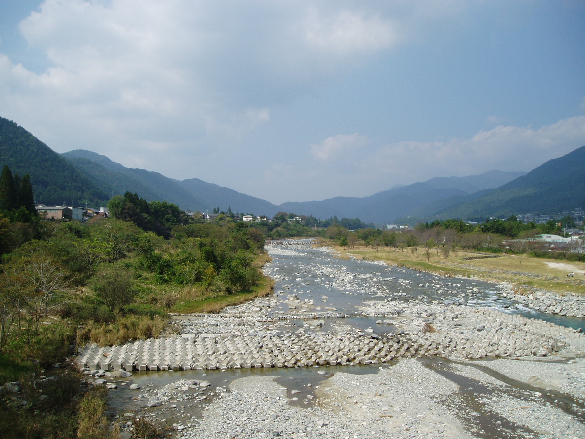 The Tsukechi River in Nakatsugawa-City, Gifu-Prefecture. （Marinesnow5 (talk)'s file） Date:2011-10-10. Author:Marinesnow5 (talk). location:Tsukechi-Town, Nakatsugawa-City, Gifu-Prefecture, Japan.